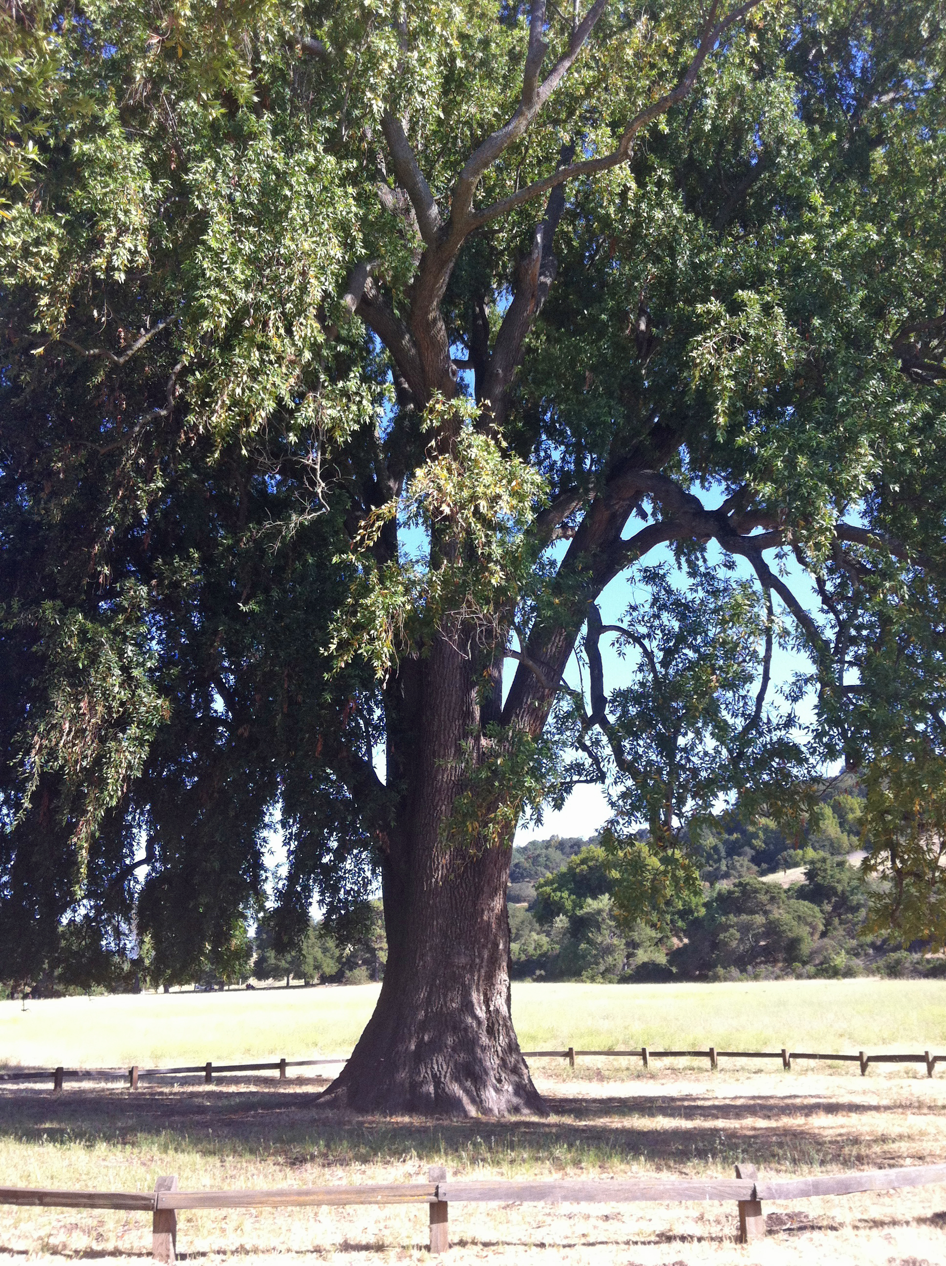 This California Bay Laurel on Permanente Creek, Rancho San Antonio Park, in Santa Clara County is the third largest in the State. Since this photograph, the tree was split, and half the tree broke off and fell in a storm. The other half is still thriving, and has more or less resumed the original canopy shape.